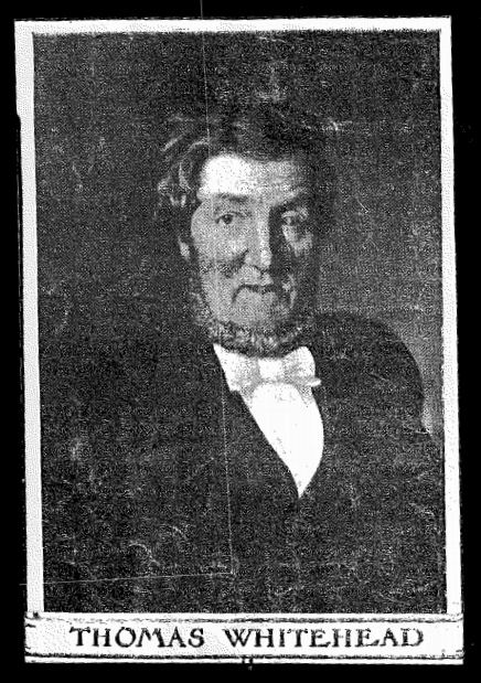 Portrait of a man showing head and shoulders